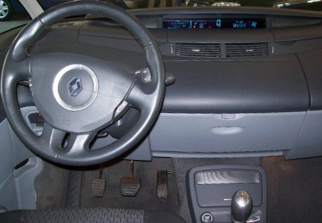 2006 Renault Espace Dynamique dashboard